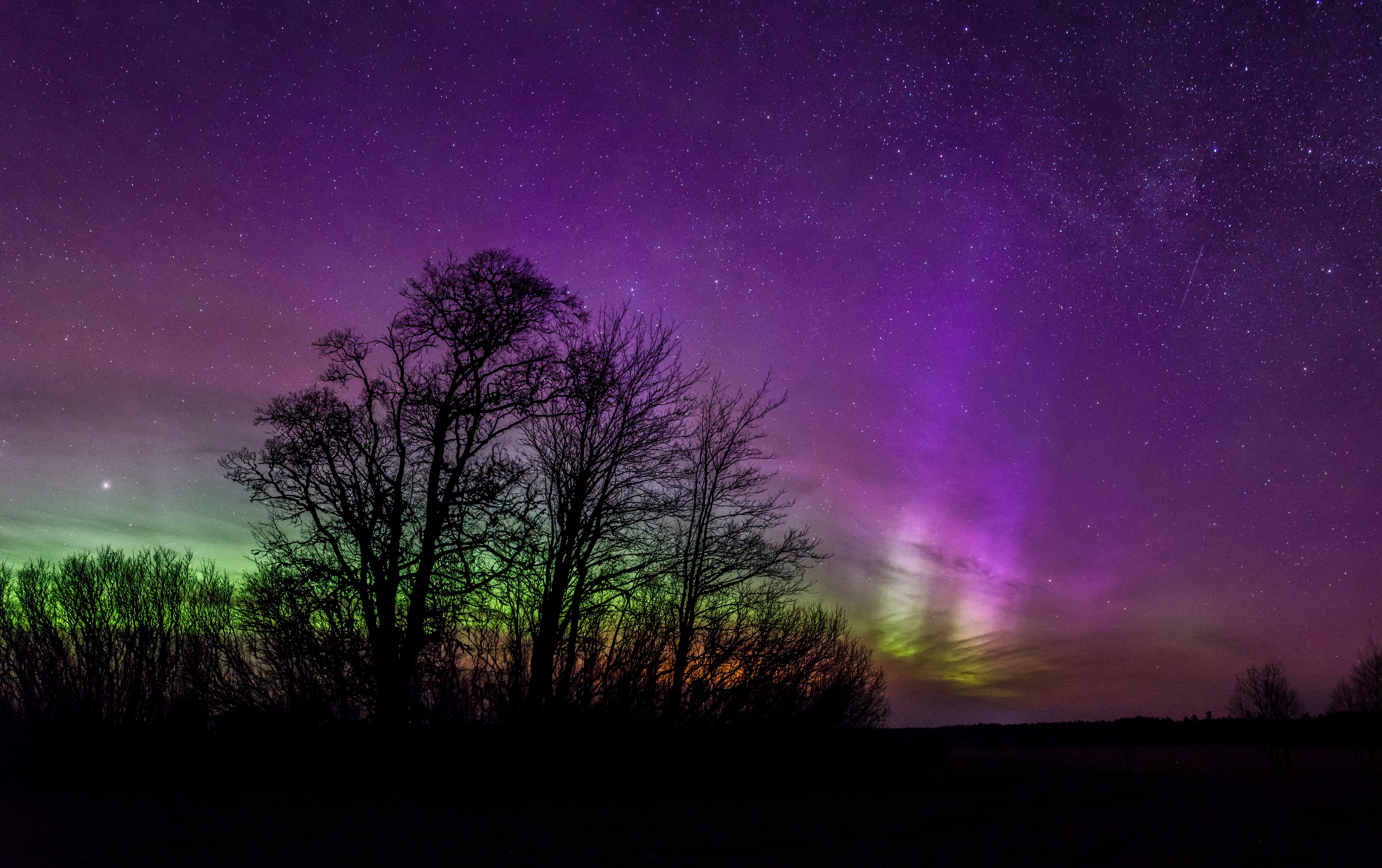 Aurora Borealis in Estonia